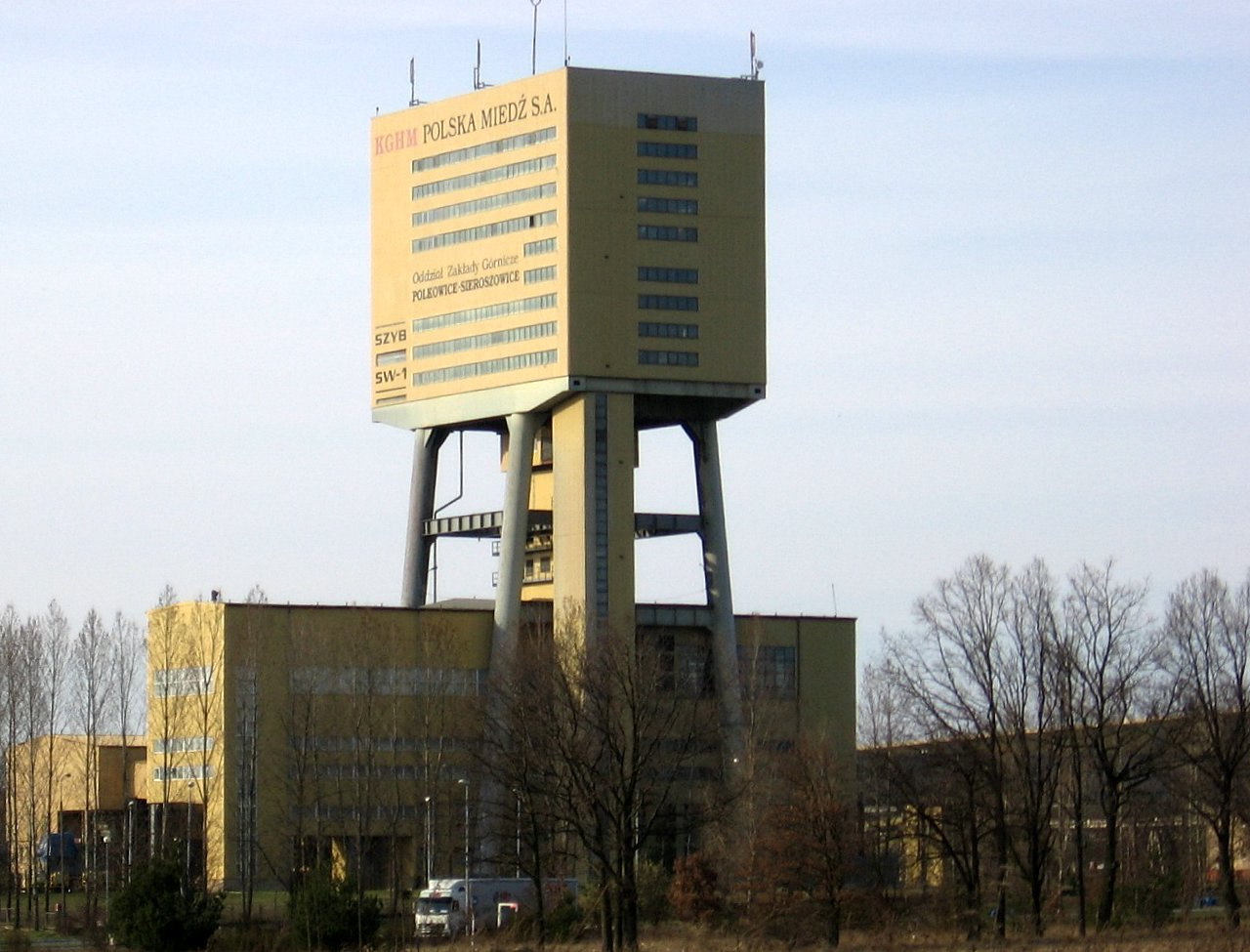 copper mine in Polkowice, Poland